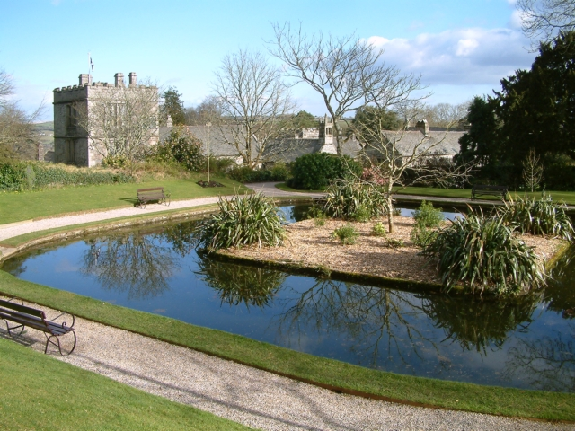 Cotehele House